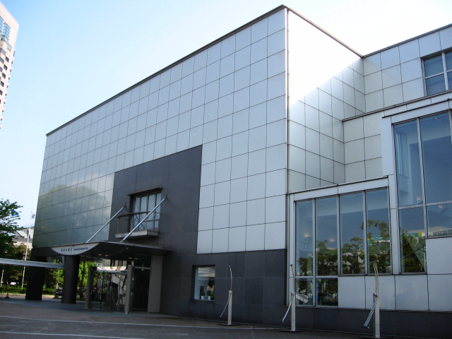 Makuhari Messe Facility Conference.